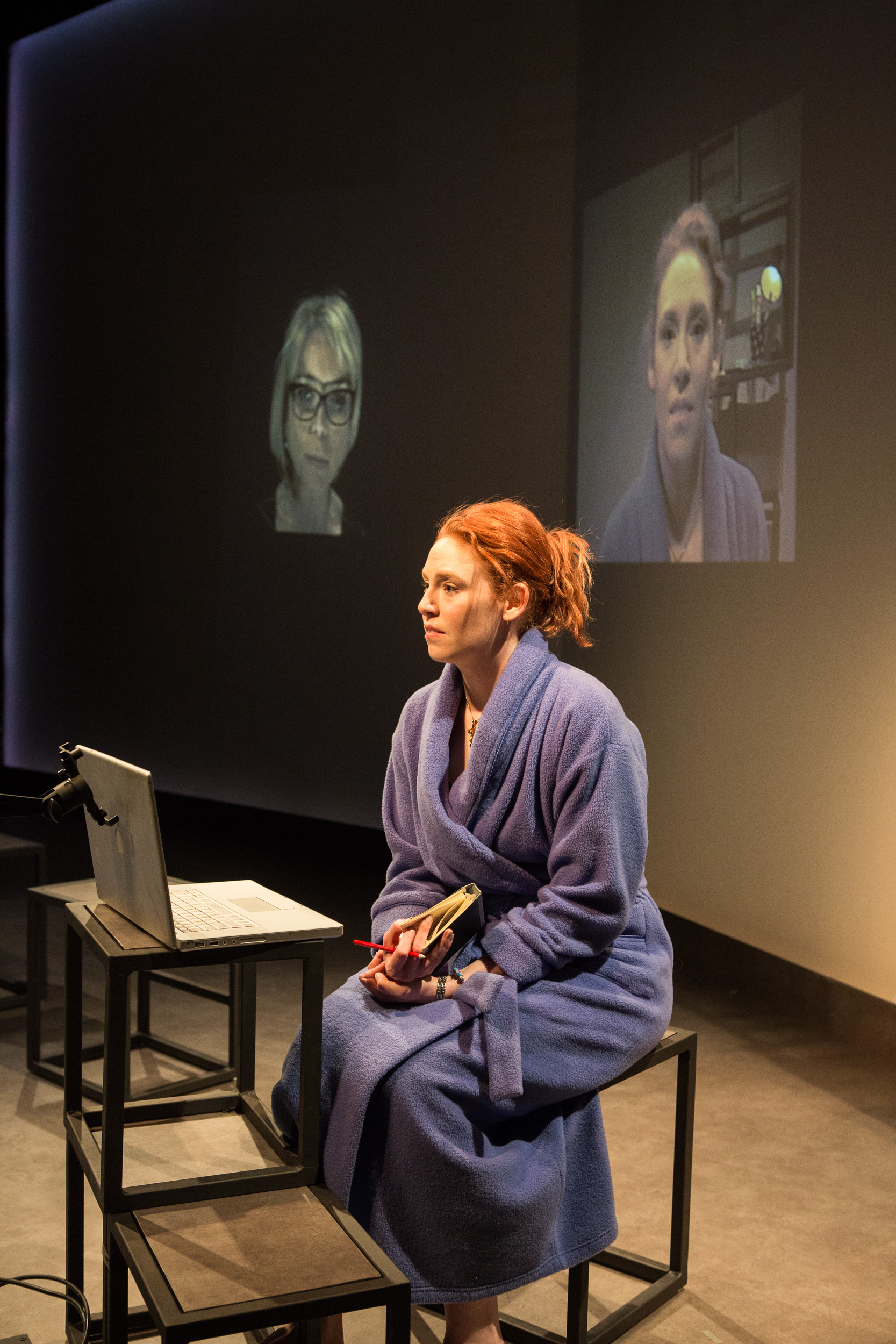 Gabrielle Scawthorn performing in the Ensemble Theatre's 2016 production of e-baby, with images projected onto the wall of Scawthorn and co-star Danielle Carter